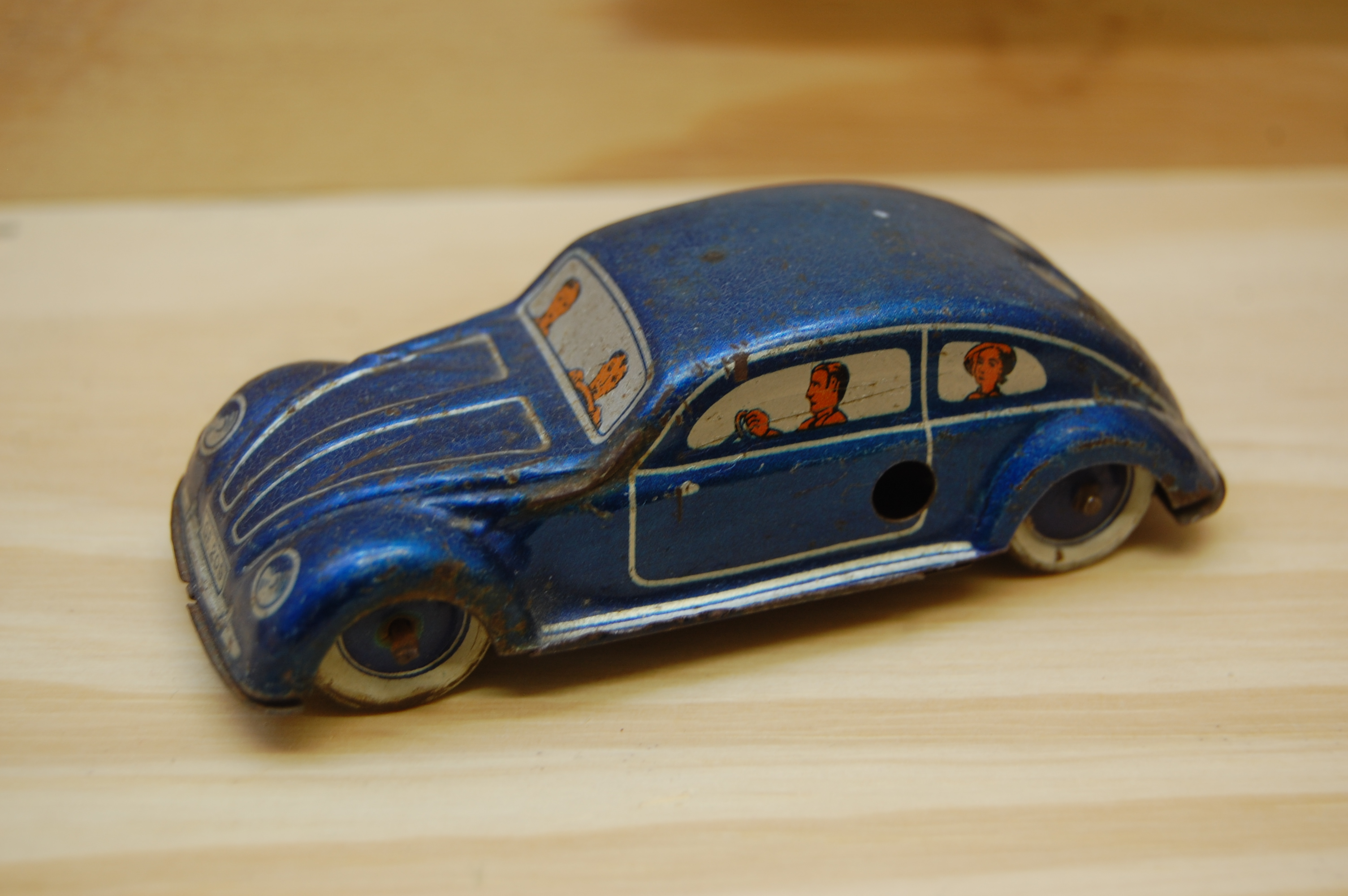 1940 KDF-wagen (Volkswagen Beetle) tin-plate toy, by the Nurenburg toymaker Georg Fisher, displayed in the Museum der Arbeit, Hamburg, Germany.